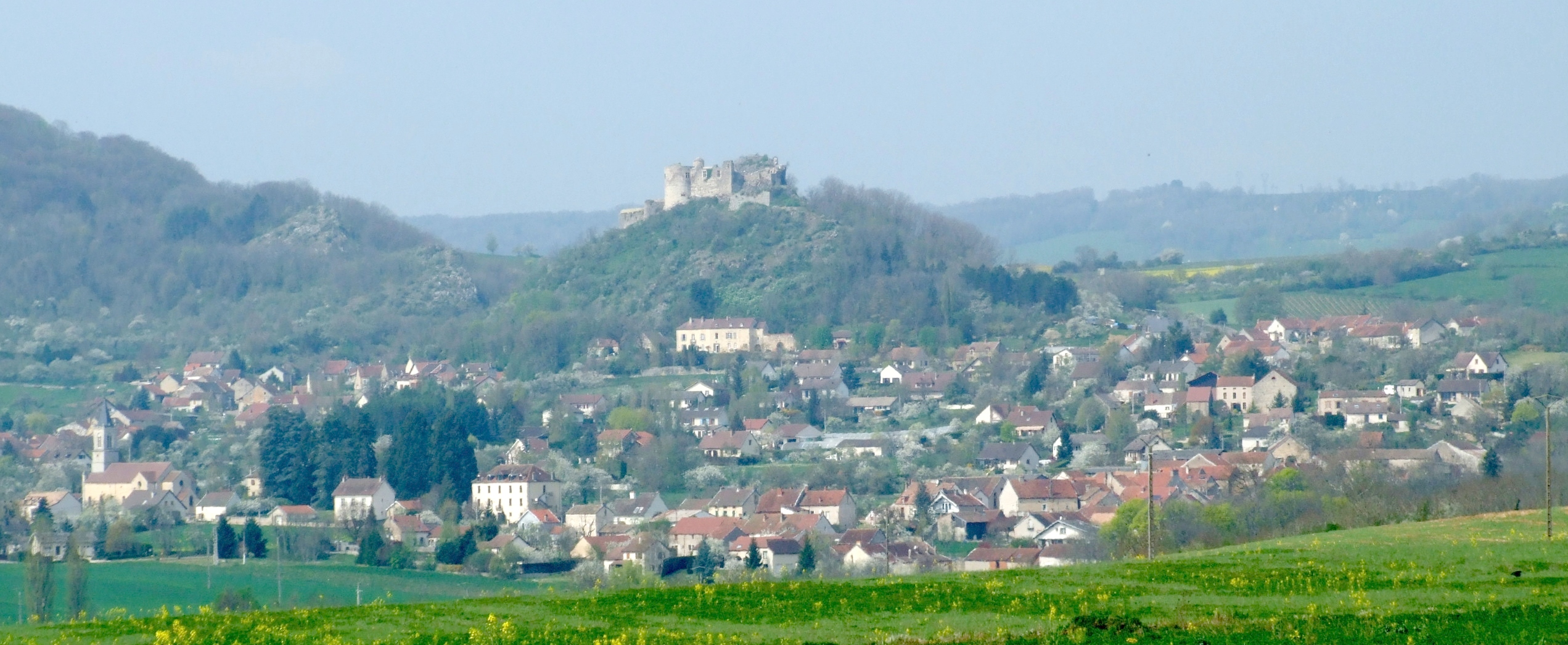 Mâlain, Burgundy, FRANCE